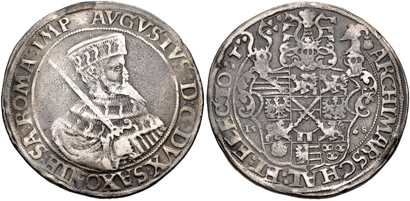 GERMANY, Sachsen-Albertinische Linie (Kurfürstentum). August. 1553-1586. AR Taler (42mm, 28.06 g, 8h). Schneeberg mint. Dated 1568. Mantled bust right, holding sword / Coat-of-arms surmounted by three helmets. Davenport 9793. Near VF, toned, removed from mount.